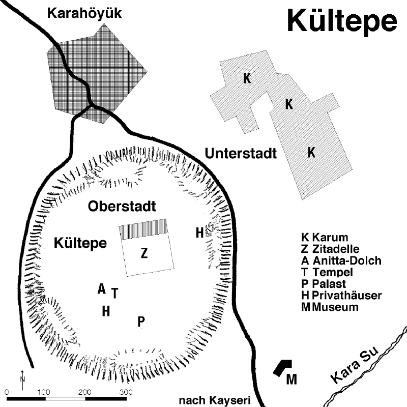 map of the archeological site Kültepe-Kaniš (Turkey)